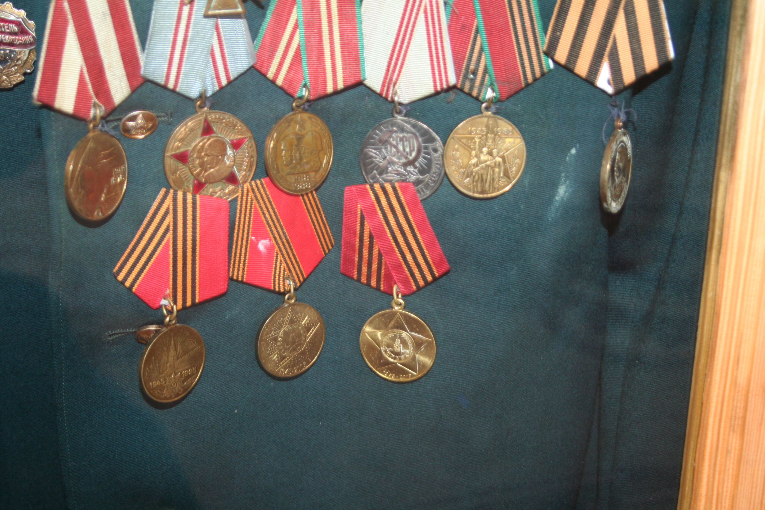 Soviet medals on the military uniform of Ahmadiyya Jabrayilov